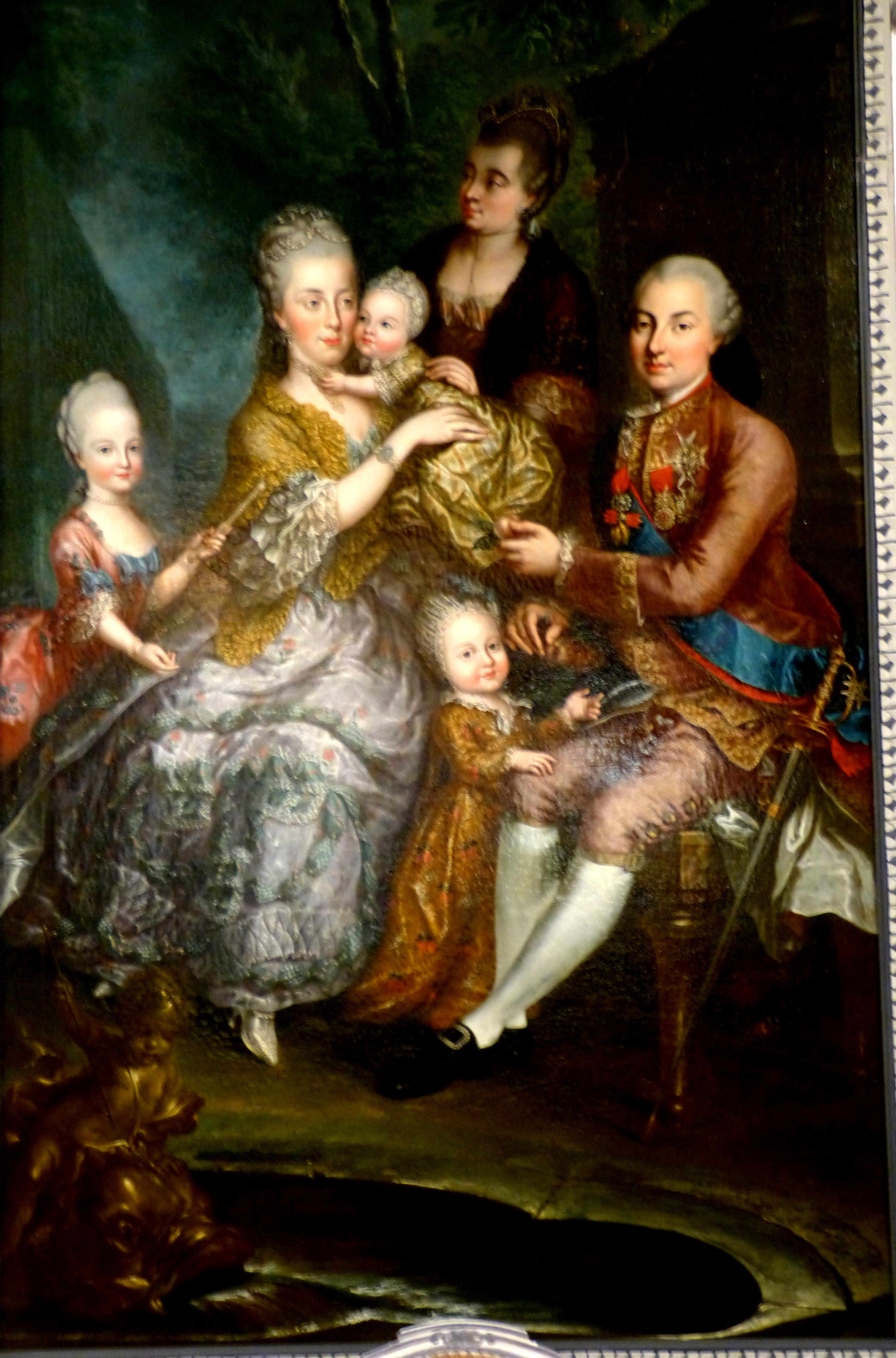 Family portrait, Archduchess Maria Amalia with her husband Ferdinand duke of Parma and children.